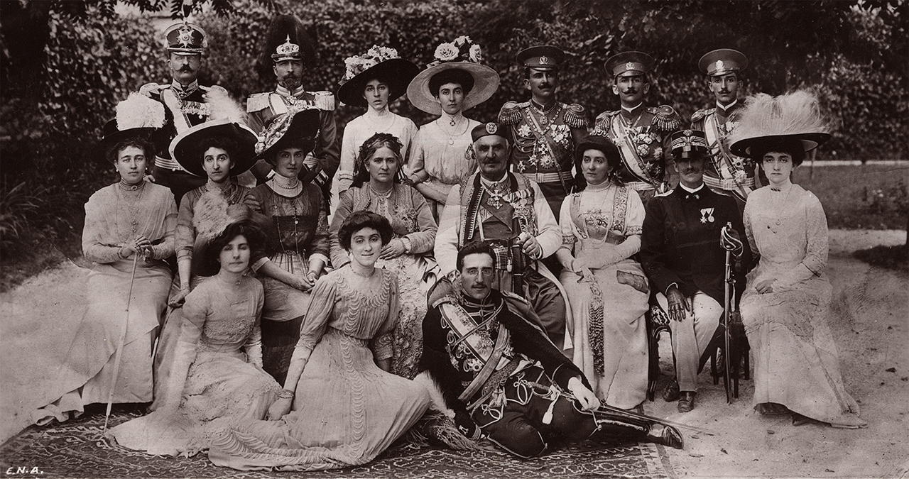 King Nicholas I of Montenegro with his wife Queen Milena Vukotić, sons, daughters, grandchildren and sons- and daughters-in-law back row : GD Piotr Nikolaievich of Russia, Franzjos Battenberg, princess Vjera, princess Ksenija, Kronprinz Danilo, prince Mirko, prince Petar. middle row : Milica-Jutta (wife of Kronprinz Danilo), princess Ana, princess Jelena, queen Milena, king Nikola, princess Milica, king Vittorio-Emanuele III of Italy, princess Natalija (wife of prince Mirko). seated : Jelena of Serbia, Marina Petrovna (daughter of Milica and GD Piotr), Aleksandar of Serbia.